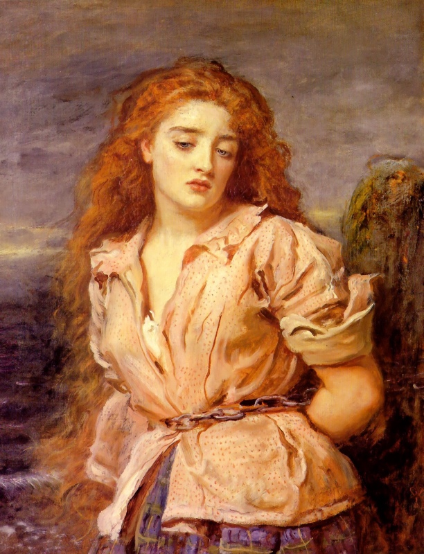 The Martyr of the Solway